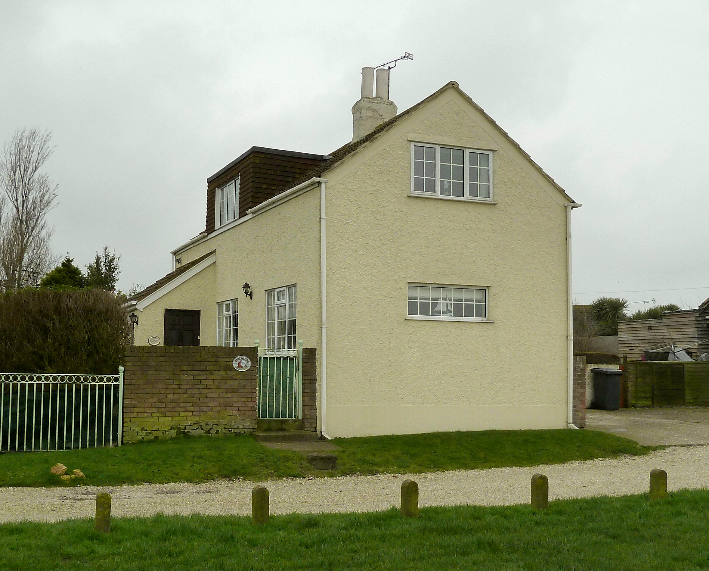 House in Swalecliffe Avenue, Herne Bay, Kent, England. Apart from the Hampton Inn, it is the last remaining building of the drowned settlement Hampton-on-Sea, and was built in the late 1890s. It was originally called Pleasant Cottage, then Hampton Bungalow. It is now called Stillwaters. It featured as "Dilly Dally Cottage" in the children's book Half Term Trail (1955) by Will Scott.